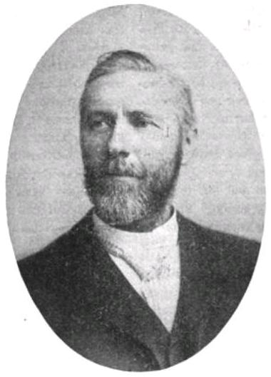 This portrait photograph of Thomas C. Griggs (1845-1903) was published in 1901 in the Juvenile Instructor, an official periodical of The Church of Jesus Christ of Latter-day Saints. Griggs was a Mormon pioneer, missionary, and hymn writer.